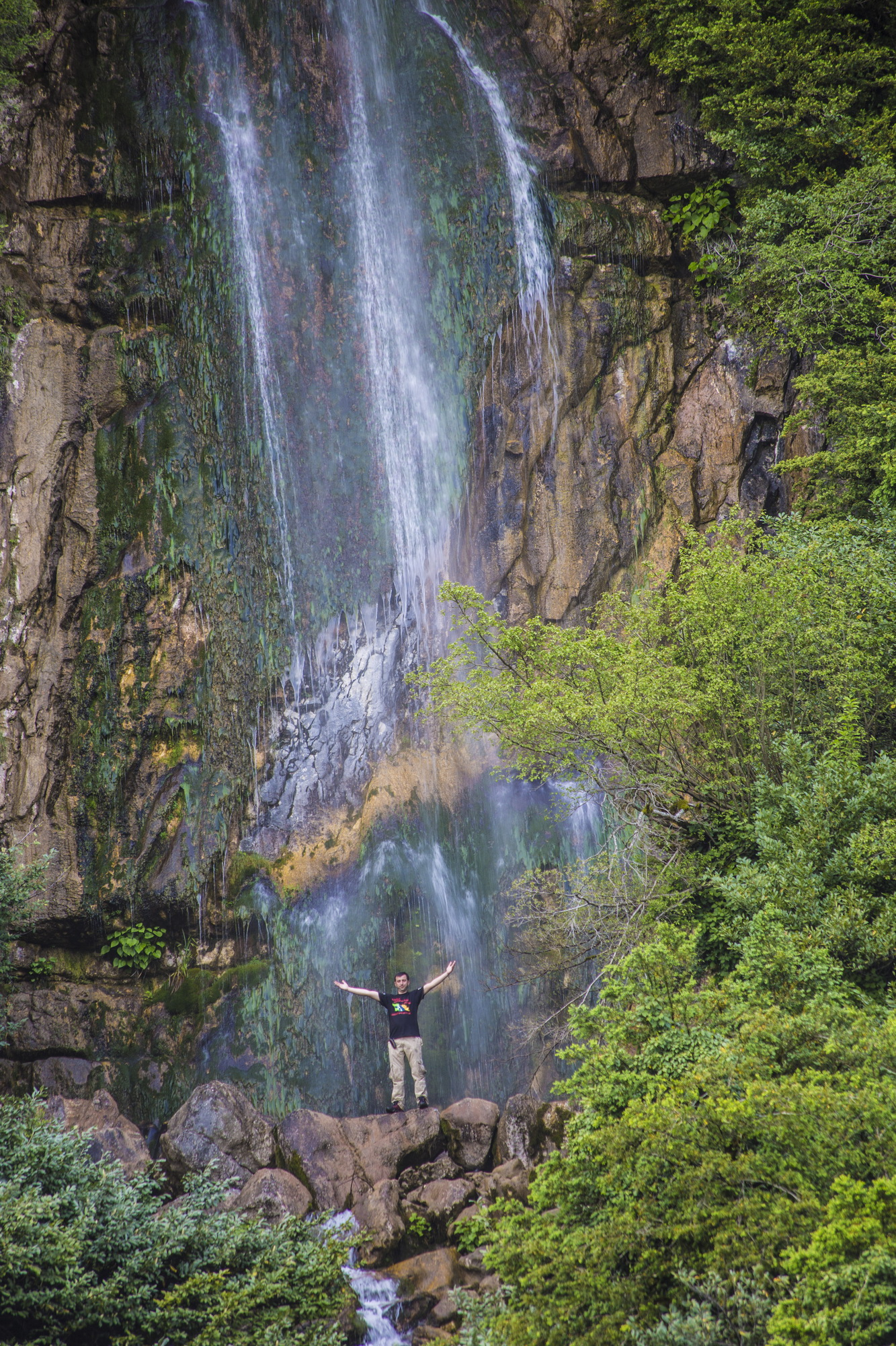 Mukhura Waterfall Attraction: The natural monument with a height of 60-70 m represents a waterfall at 882 m above sea level. It flows from the cave located on the slope of eastern exposure in the form of 3-step waterfall. There is one small and one big lake in the cave. There also flows a pristine river in the cave, which the locals refer to as "Tskalmechkheri" (shallow water). The banks of the waterfall is covered in mixed broadleaf forest. The waterfall creates an astounding landscape. The place is home to many endemic species, such as : Caucasian mole, and Rade, Volnukhin, and Caucasian water shrew. The place is home to 10 kinds of bats. How to get there: The nearest populated ara is village Mukhura of Tkibuli Municipality, which is connected to the natural monument with a 800 m long dirt road, whereas the distance from Tbilisi to Mukhura is 265 km of paved road. It takes 4 hours 30 minutes to get there by car. Kutaisi - Village Mukhura - 39 km. The road is paved and the length of the journey is 1 hour by car. Tkibuli - Village Mkhura - 5.2 km, 3 km concrete road and 2.2 km dirt road.